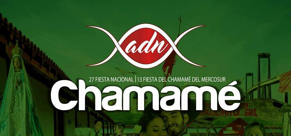 Logo of the 27th National Chamamé Festival, 13th Fiesta of Chamamé del Mercosur. Corrientes Argentina.